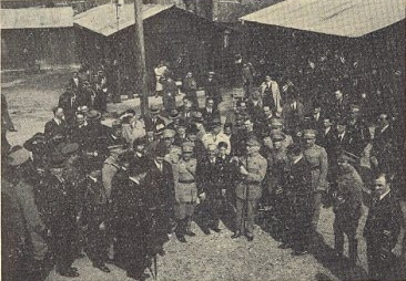 The President of the Republic, Óscar Carmona, with the ministers and the other guests, after the inauguration of the Trindade Rail Tunnel, on the Póvoa Railway, in Portugal. This ceremony took place on the 14th March 1932. This image was published on the Gazeta dos Caminhos de Ferro magazine No. 1062, of the 16th March 1932, and scanned by the Hemeroteca Municipal de Lisboa.